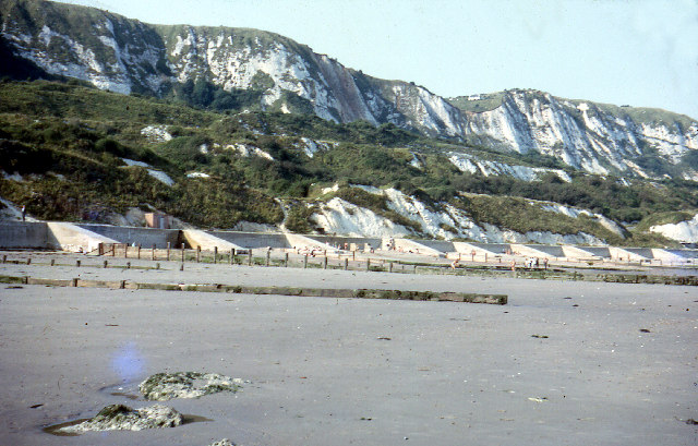 Capel Cliffs and the Warren 1964. View looking north east. The Warren is a large landslipped area of slumped chalk. Groynes and substantial promenade serve to stabilise both beach and lower cliffs